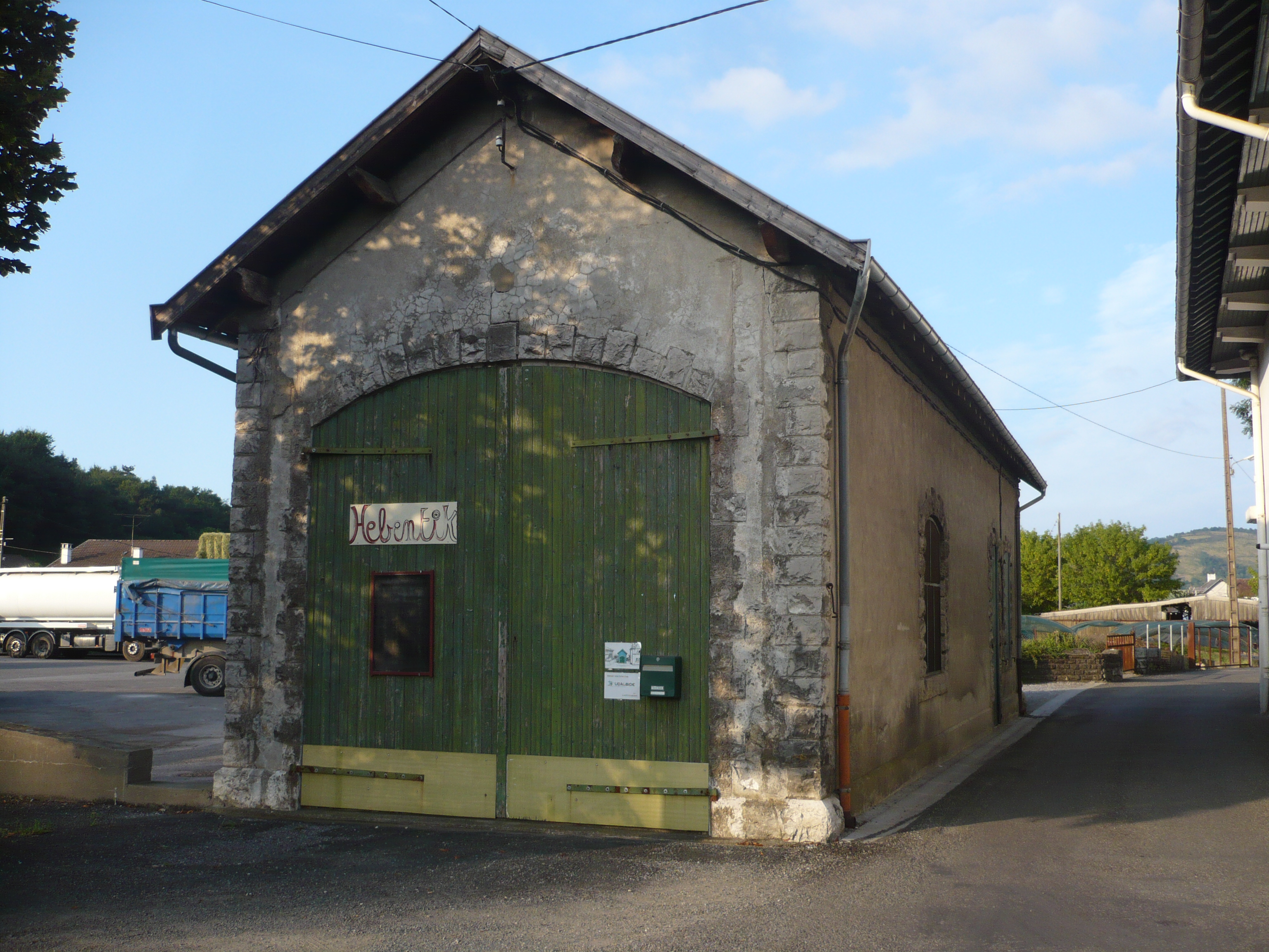 Office of the cultural association called Hebentik (in favour of Basque language culture) at an old building of the Maule-Lextarre train station, Lextarre (fr. Mauléon-Licharre), Soule, Basque Country.